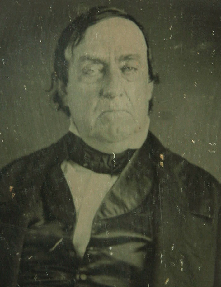 Lewis Cass